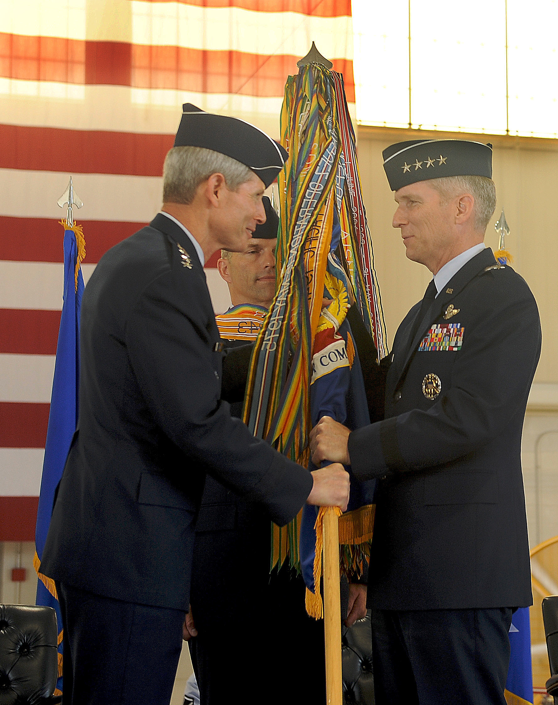 Change of Command Air Combat Command (Chief of Staff of the Air Force Norton A. Schwartz & incoming Commander Gilmary M. Hostage III.), September 2011